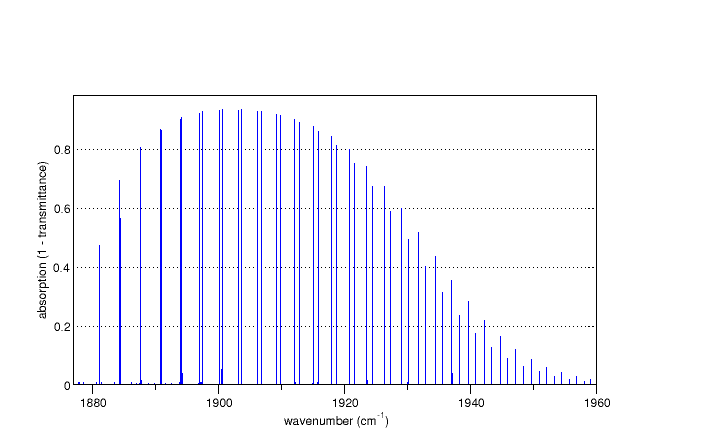 Part of the ro-vib spectrum of nitric oxide